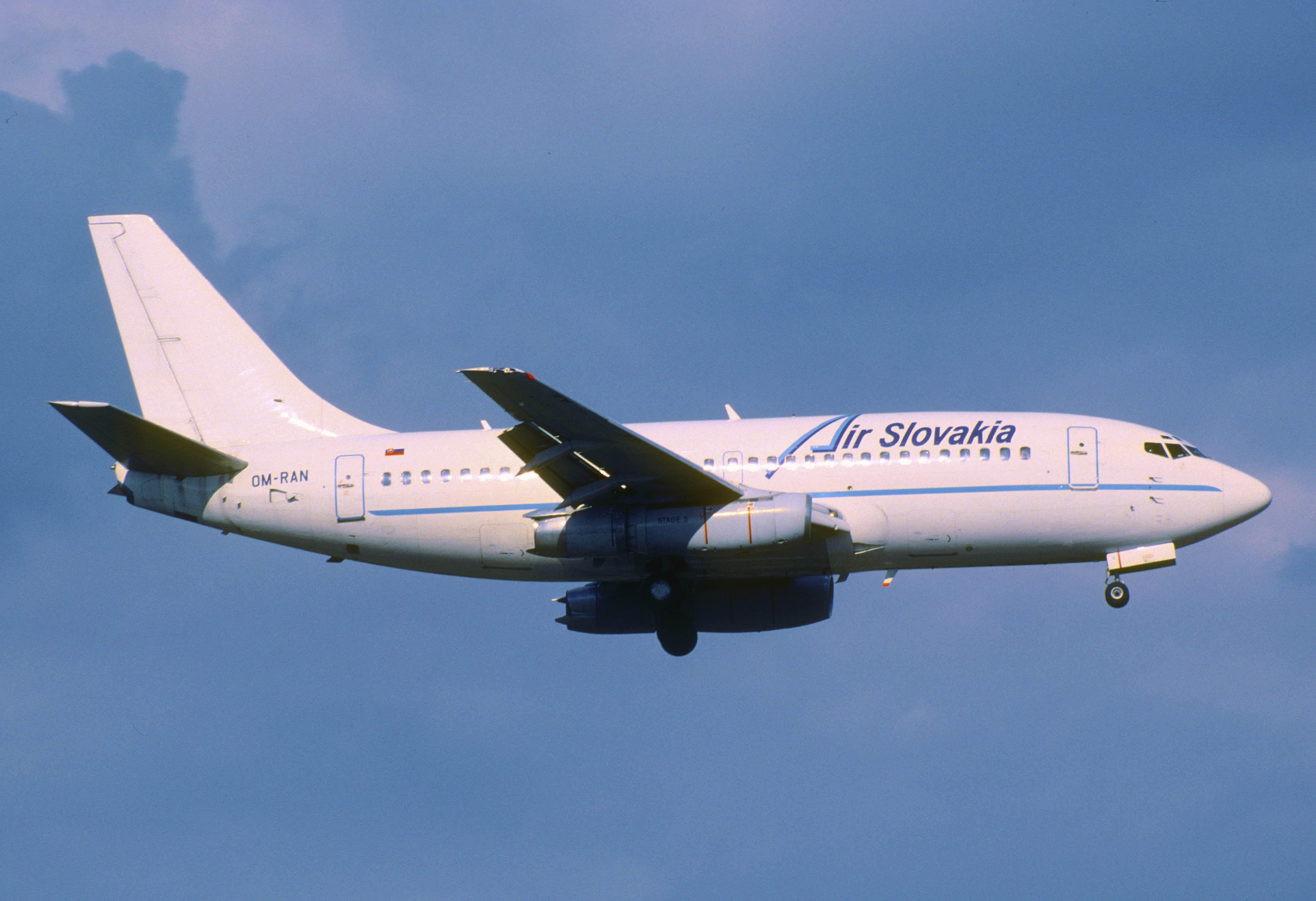 This Boeing 737-230, named 'Paderborn', took its first flight on January 22, 1995...(c/n 23156/ 1082) 07/02/1985 Lufthansa D-ABMD 31/03/1998 Accessair N621AC 07/05/2002 Air Slovakia OM-RAN ceased operations March 2, 2010, stored